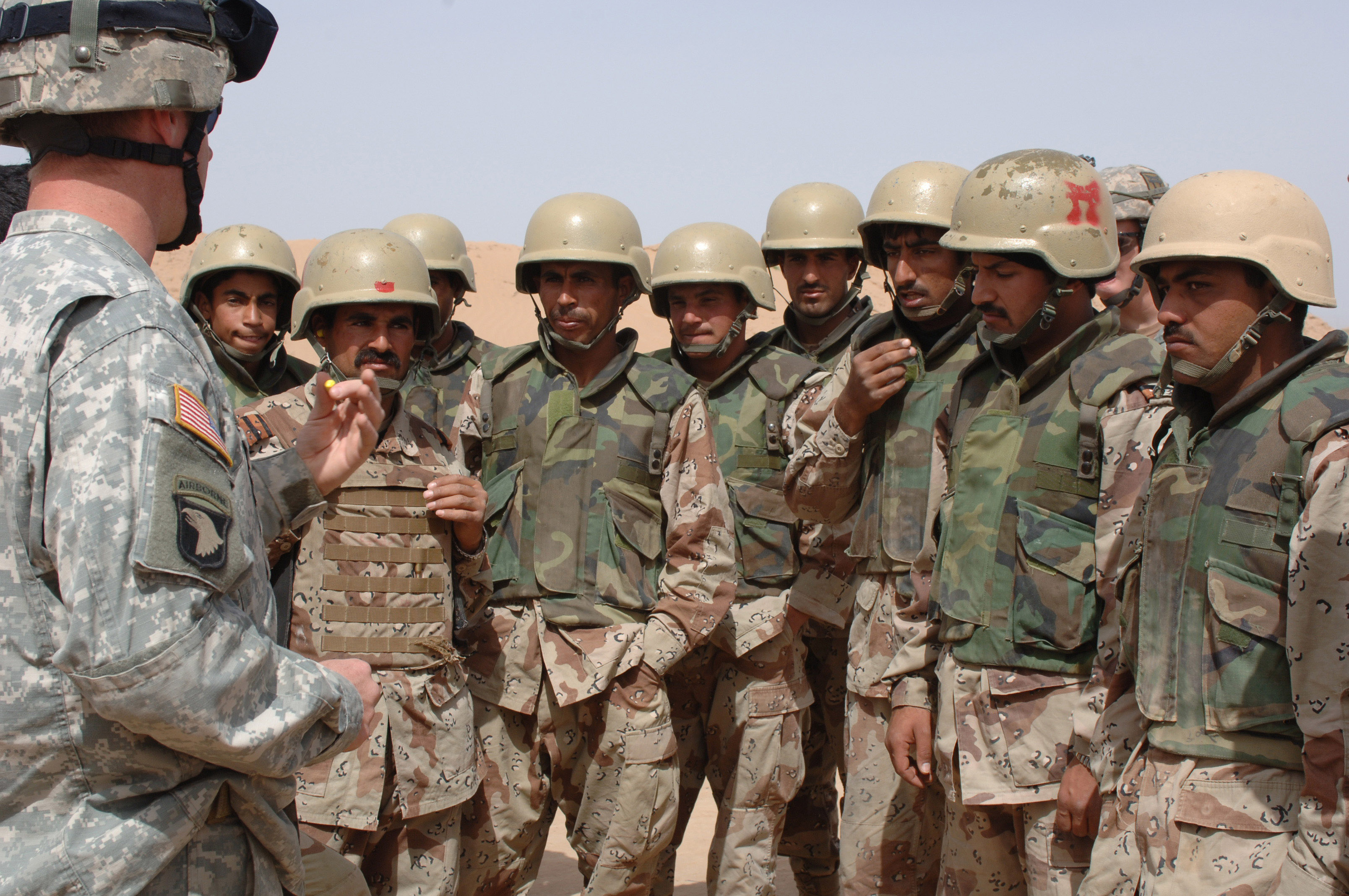 Iraqi army soldiers of Charlie Company, 2nd Brigade, 4th Iraqi Army Division listen to U.S. Army Staff Sgt. Robert Leak during training at the qualification range at Forward Operating Base Summerall, Iraq, on March 24, 2006. Leak, of Charlie Company, 1st Battalion, 187th Infantry Regiment, 101st Airborne Division, is instructing the Iraqi soldiers on weapons safety on the firing range.